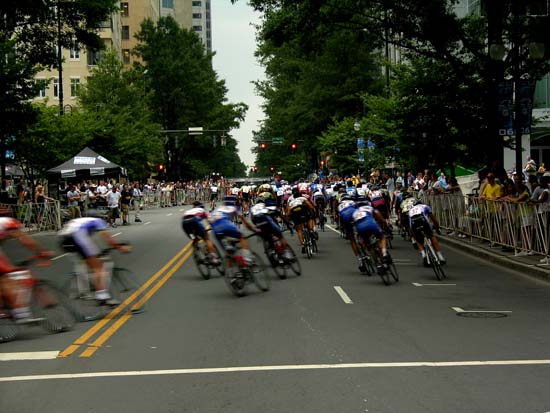 2006 Bank of America Criterium on Tryon Street in Uptown Charlotte, North Carolina, USA